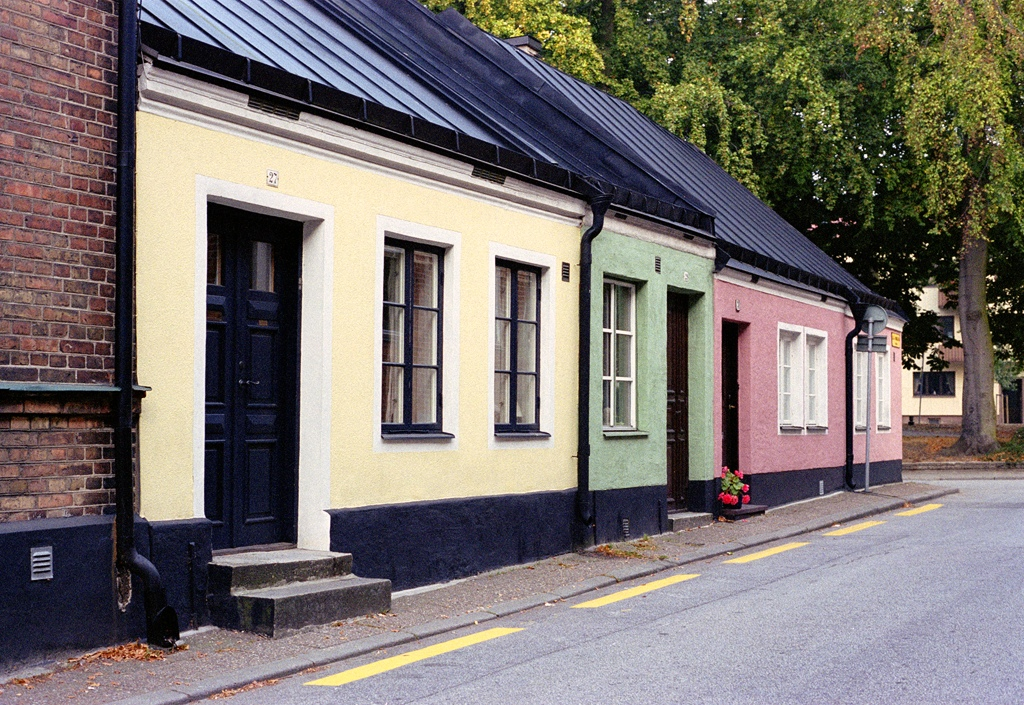 Row houses in Ystad, Sweden, summer 2000.